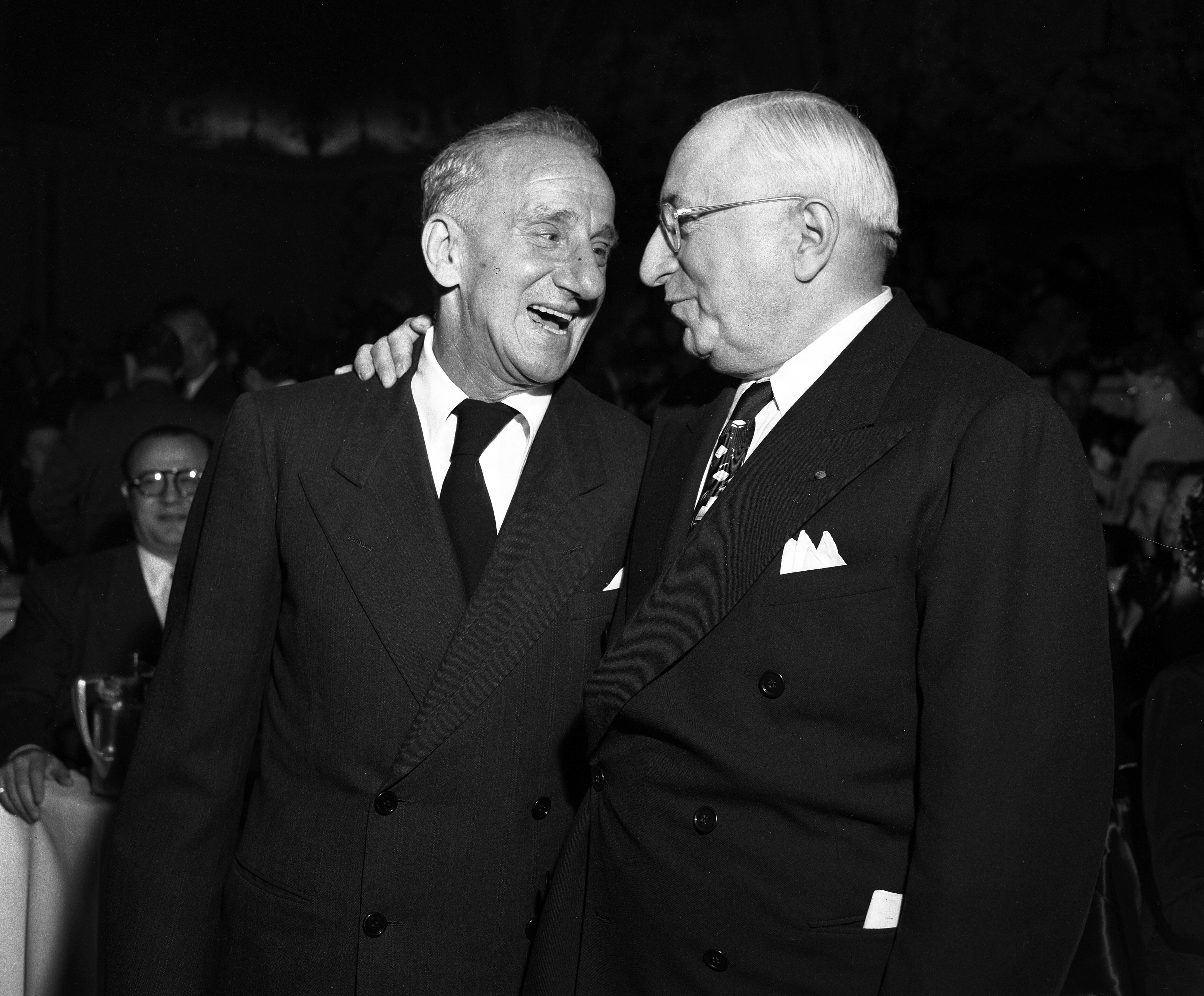 Jimmy Durante and Louis B. Mayer during an award dinner at Mt. Sinai Men's Club in Los Angeles, California in 1948.